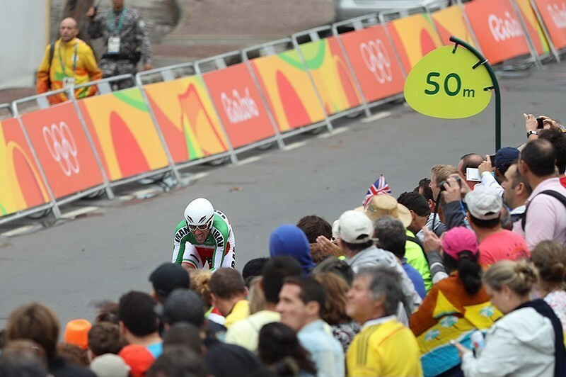 Cycling at the 2016 Summer Olympics – Men's road time trial